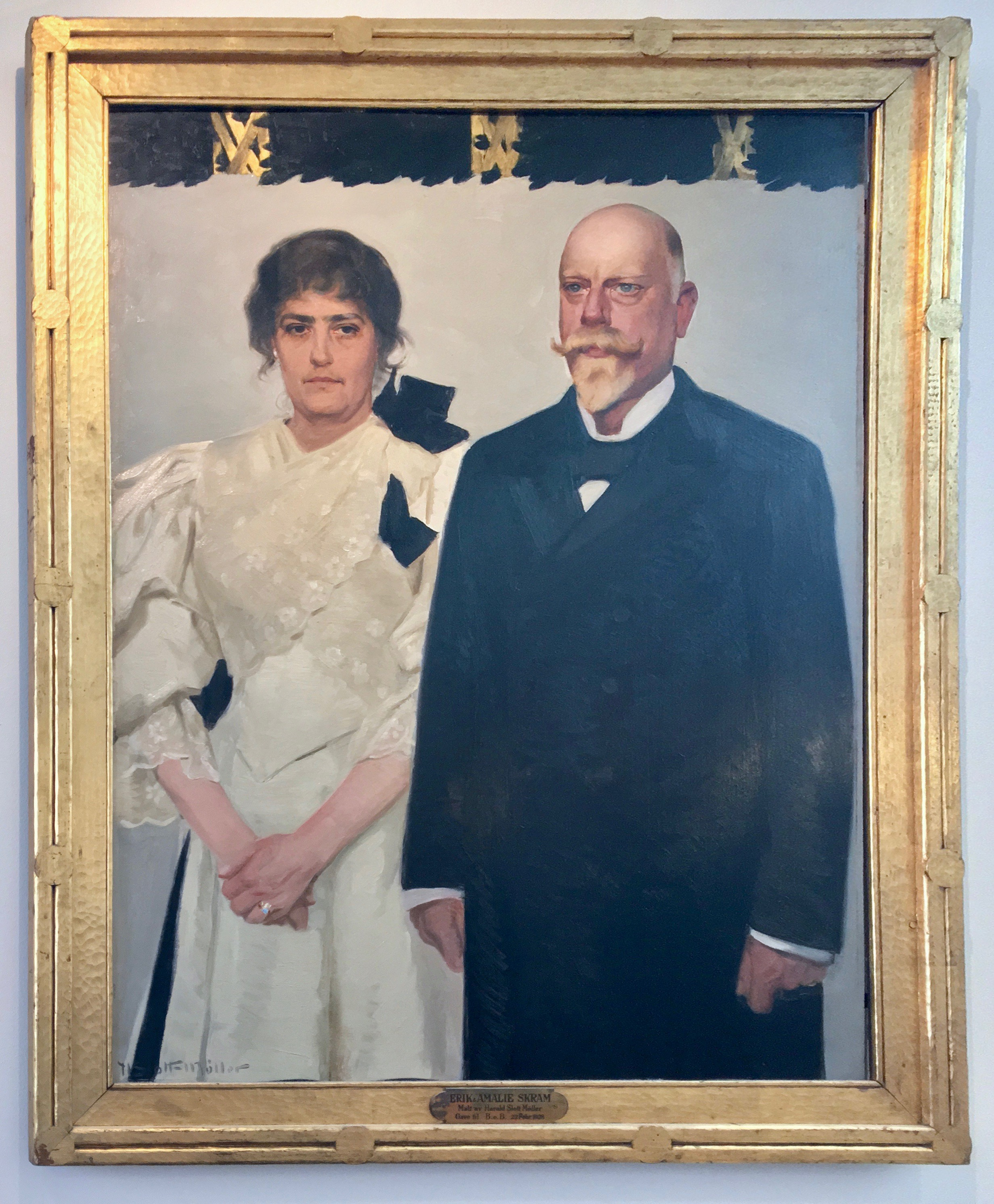 Double portrait of Danish author Erik Skram (1847–1923) and Norwegian feminist author Amalie Skram (1846–1905) painted by Harald Slott-Møller 1895 (Danish naturalist painter), on display in Bergen Public Library, Norway. Photo 2018-03-18 ("corrected", rectangular version).